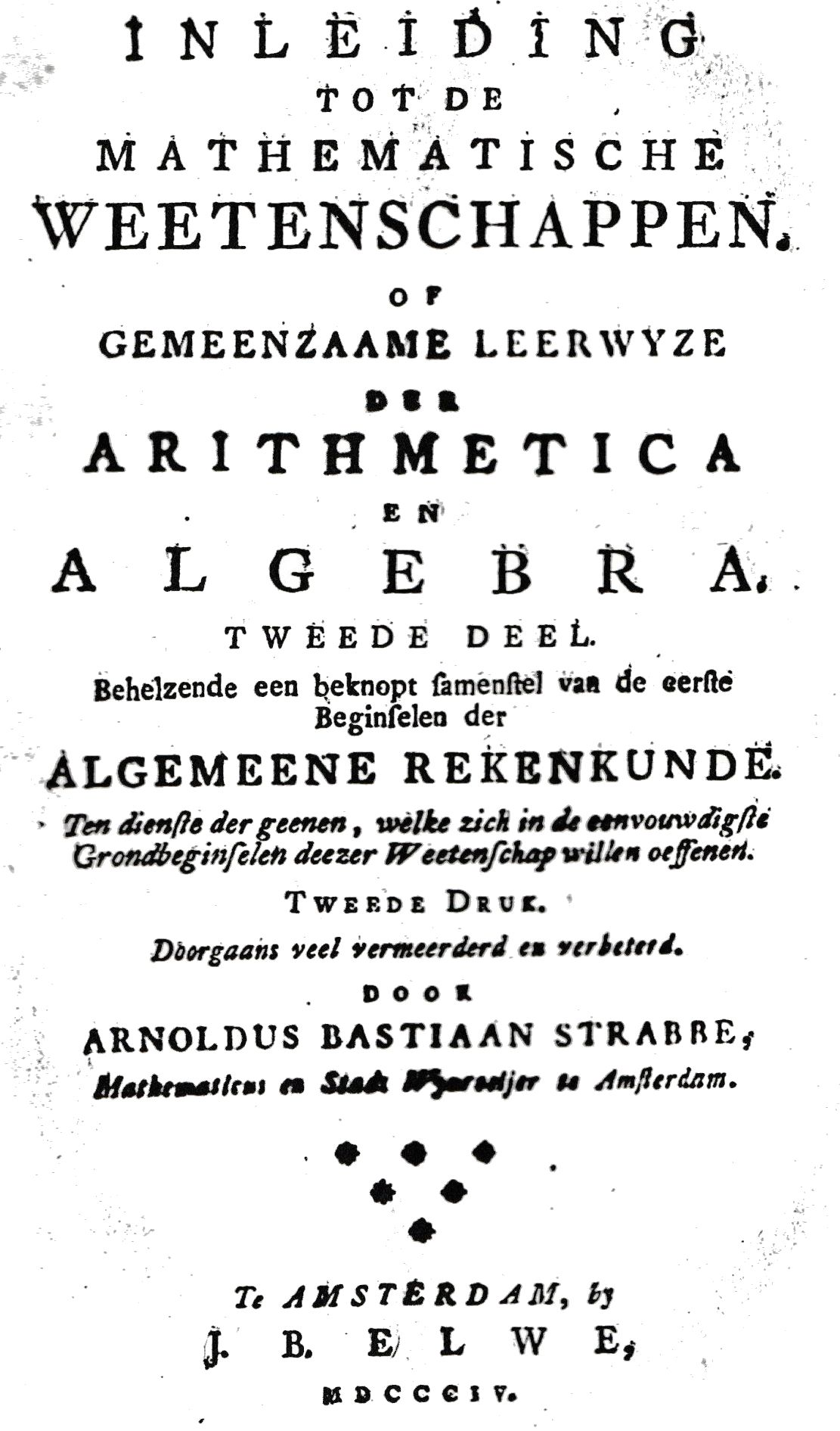 Frontpage of volume 2 of Strabbe's Arithmetica